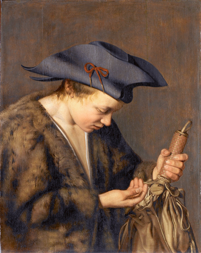 The moneycounter (holding a stick-purse)